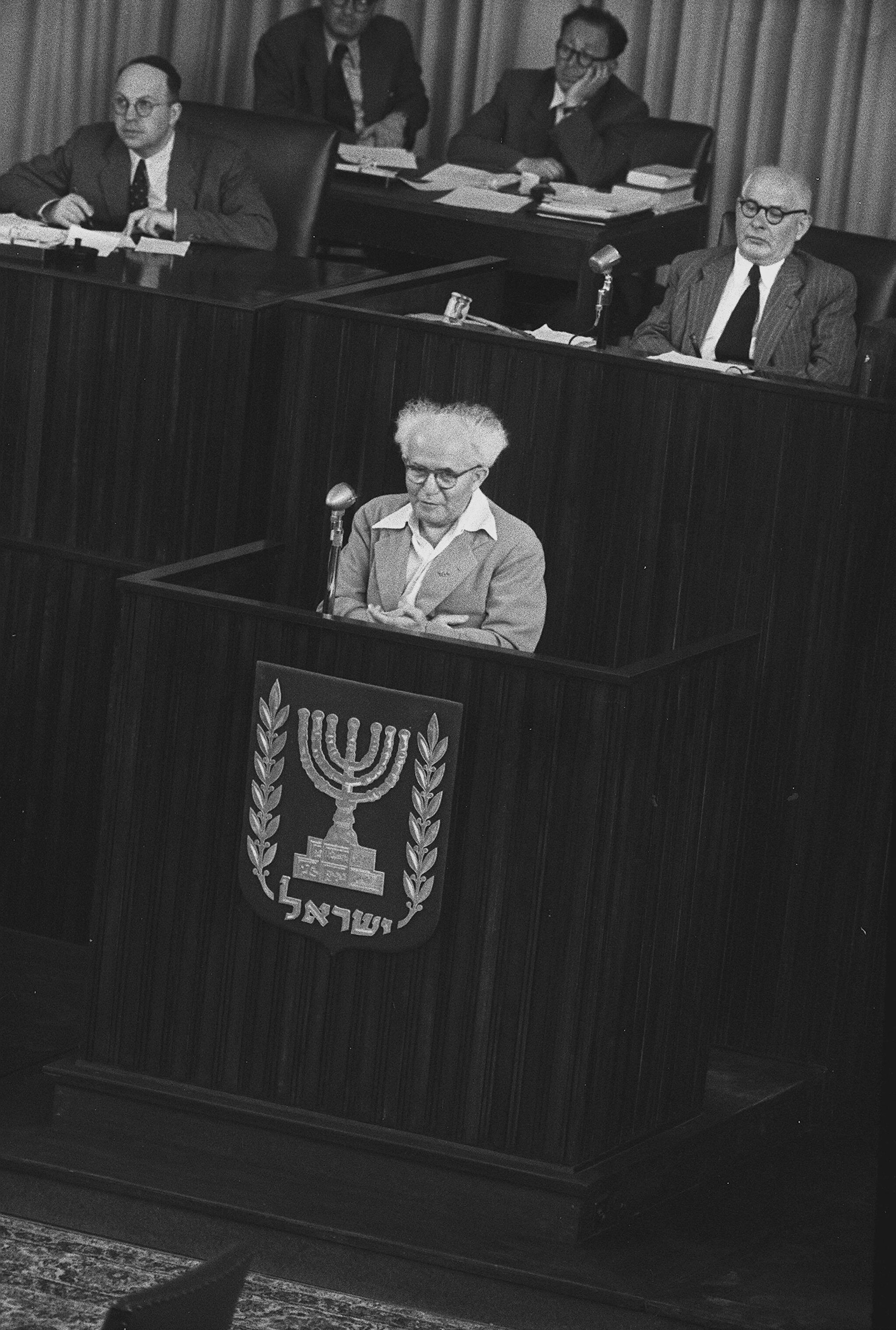 PM DAVID BEN GURION SPEAKING IN THE KNESSET IN TEL AVIV, WITH KNESSET SPEAKER DR. NAHUM (RAFALKES) NIR & DEPUTY SPEAKER DR. YOSSEF BURG (LEFT) BEHIND HIM. ראש הממשלה דוד בן גוריון נושא דברים במליאת הכנסת בתל אביב. מאחור, יו"ר הכנסת נחום ניר וסגנו יוסף בורג. Photograph: Hans Pinn (1916–1978) Alternative names הנס פין; פין, חיים; פין, הנס; פין, ה. חיים; Hans Chaim Pinn; Pinn, Hans H; Pinn, H. Hayim; Pin, H. Ḥayim; Fin, H. Ḥayim; Hans H. Pinn; H. Ḥayim Pin; Piyn, Ḥayyim; Pinn, ChaimDescriptionIsraeli photographerDate of birth/death 16 November 1916 30 May 1978 / 13 May 1978Location of birth/death Berlin HerzliyaAuthority control : Q16129161 VIAF: 51249035 ISNI: 0000 0001 1234 9240 ULAN: 500479725 LCCN: no90017900 Open Library: OL6752235A WorldCat creator QS:P170,Q16129161 , GPO.05/07/1949.